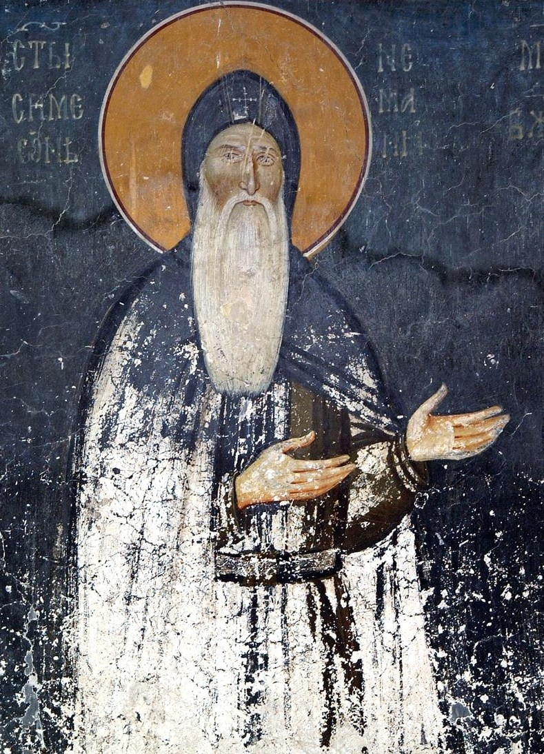 The fresco of young Saint Simeon, King`s Church in Studenica, Serbia